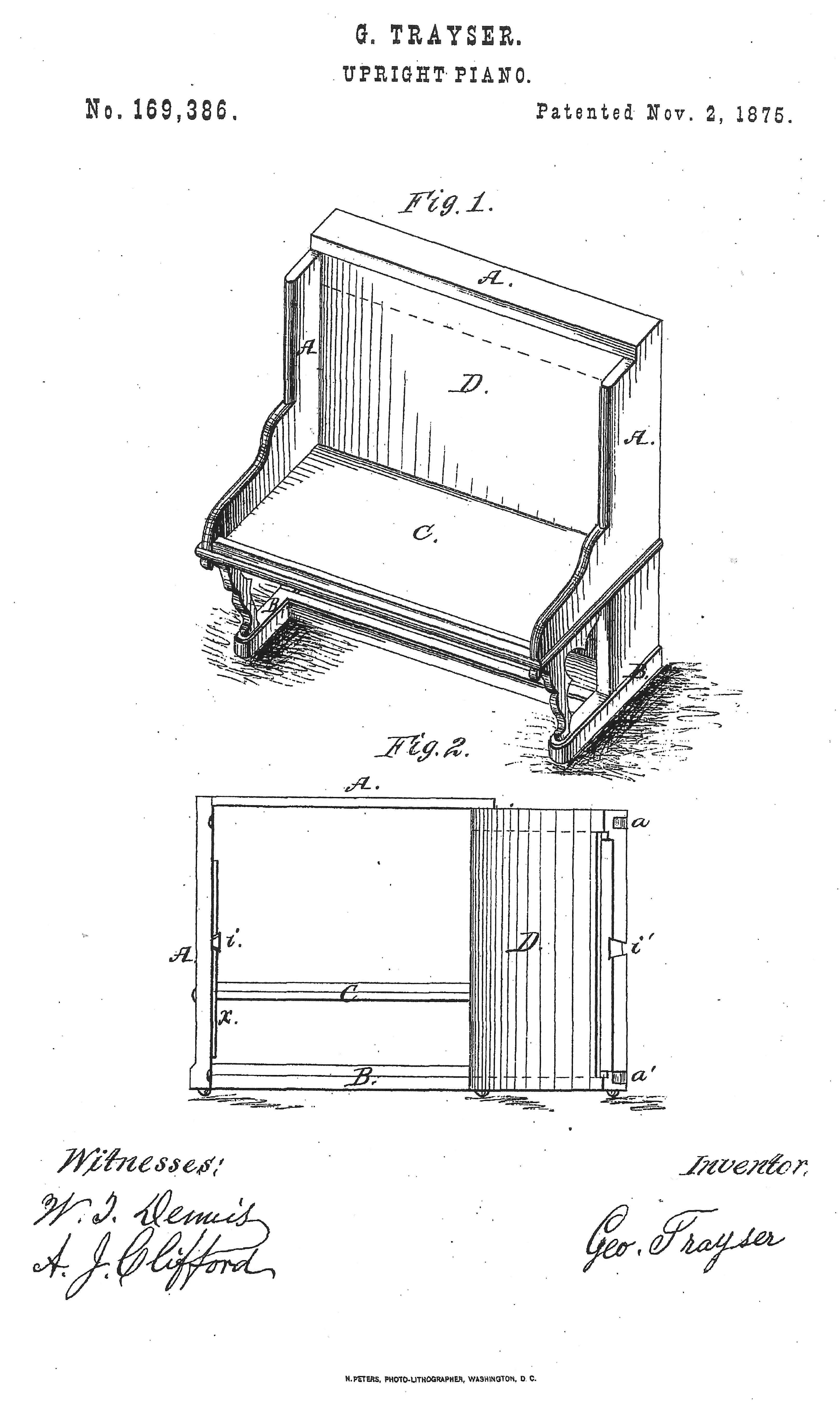 This is a diagram to accompany the patent 169386, granted 2 November 1875.